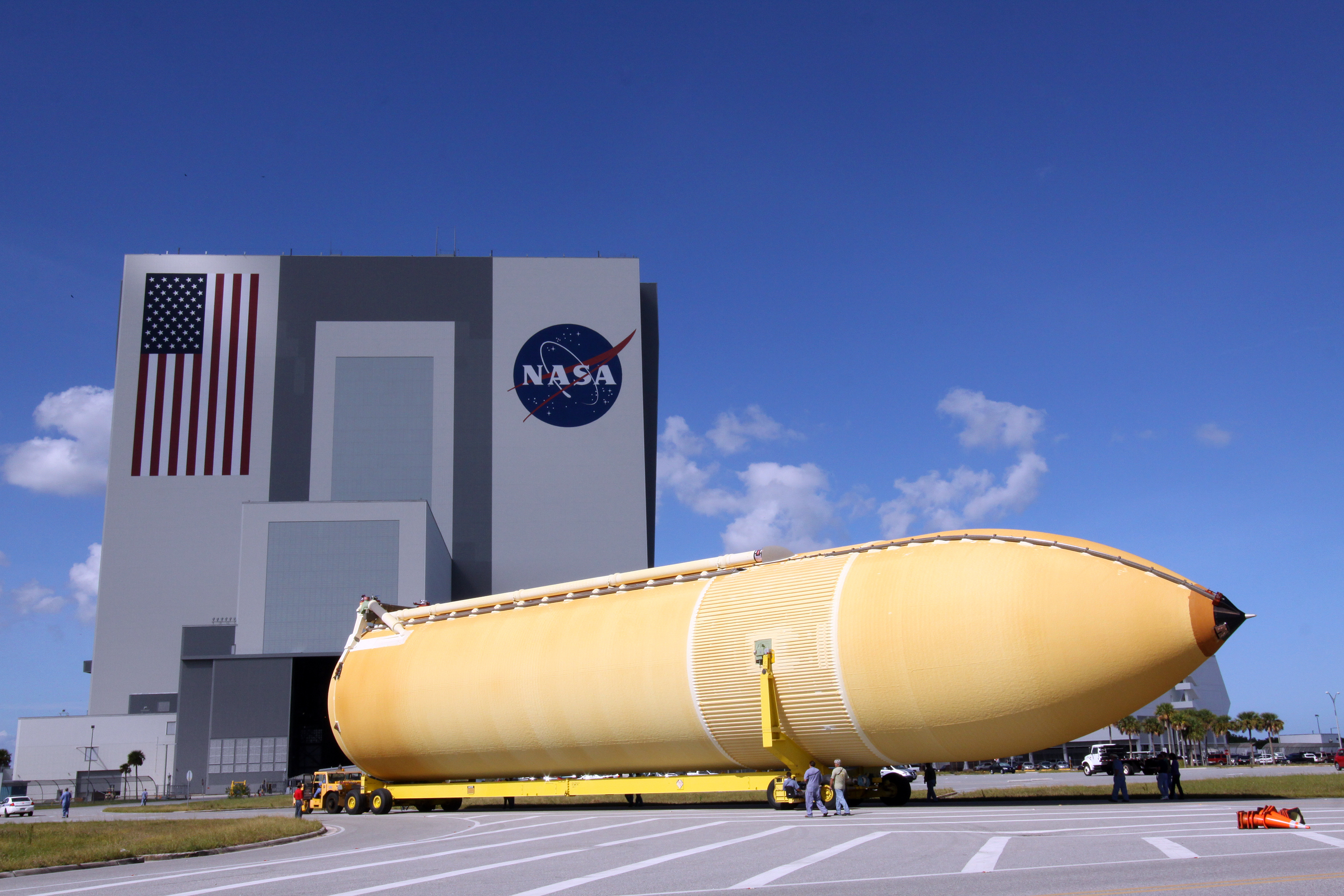 CAPE CANAVERAL, Fla. – External tank 134 is towed toward the looming 525-foot-tall Vehicle Assembly Building, or VAB, at NASA's Kennedy Space Center in Florida. The Pegasus barge, carrying the fuel tank, arrived in Florida after an ocean voyage towed by a solid rocket booster retrieval ship from NASA's Michoud Assembly Facility near New Orleans. Next, the tank will be transported into the VAB where it will be stored until needed. ET-134 will be used to launch space shuttle Endeavour on the STS-130 mission to the International Space Station. Launch is targeted for Feb. 4, 2010. For information on the components of the space shuttle and the STS-130 mission, visit